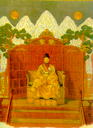 왕좌에 앉아있는 고종의 초상 석판화. 프랑스 화가 드 라네지에르가 그리고, 1903년에 발간된 “극동의 이미지” 중에서. The portrait of Gojong, king of Josen Dynasty. Lithography by Joseph de la Nezière from l'Extrême Orient en Image published in 1903.